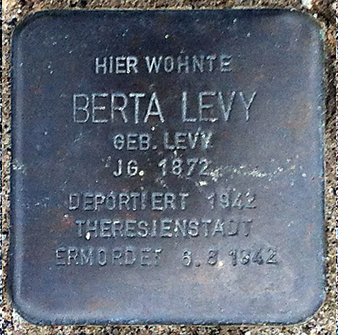 Stolperstein - Stumbling Stone in Nettetal, NRW, Germany Berta Levy